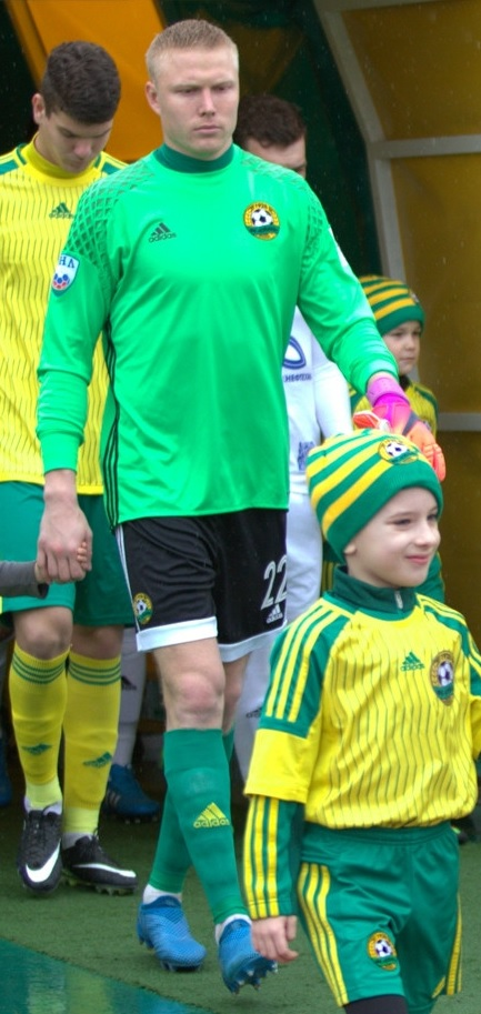 Yuri Dyupin with FC Kuban in a game against FC Neftekhimik Nizhnekamsk.